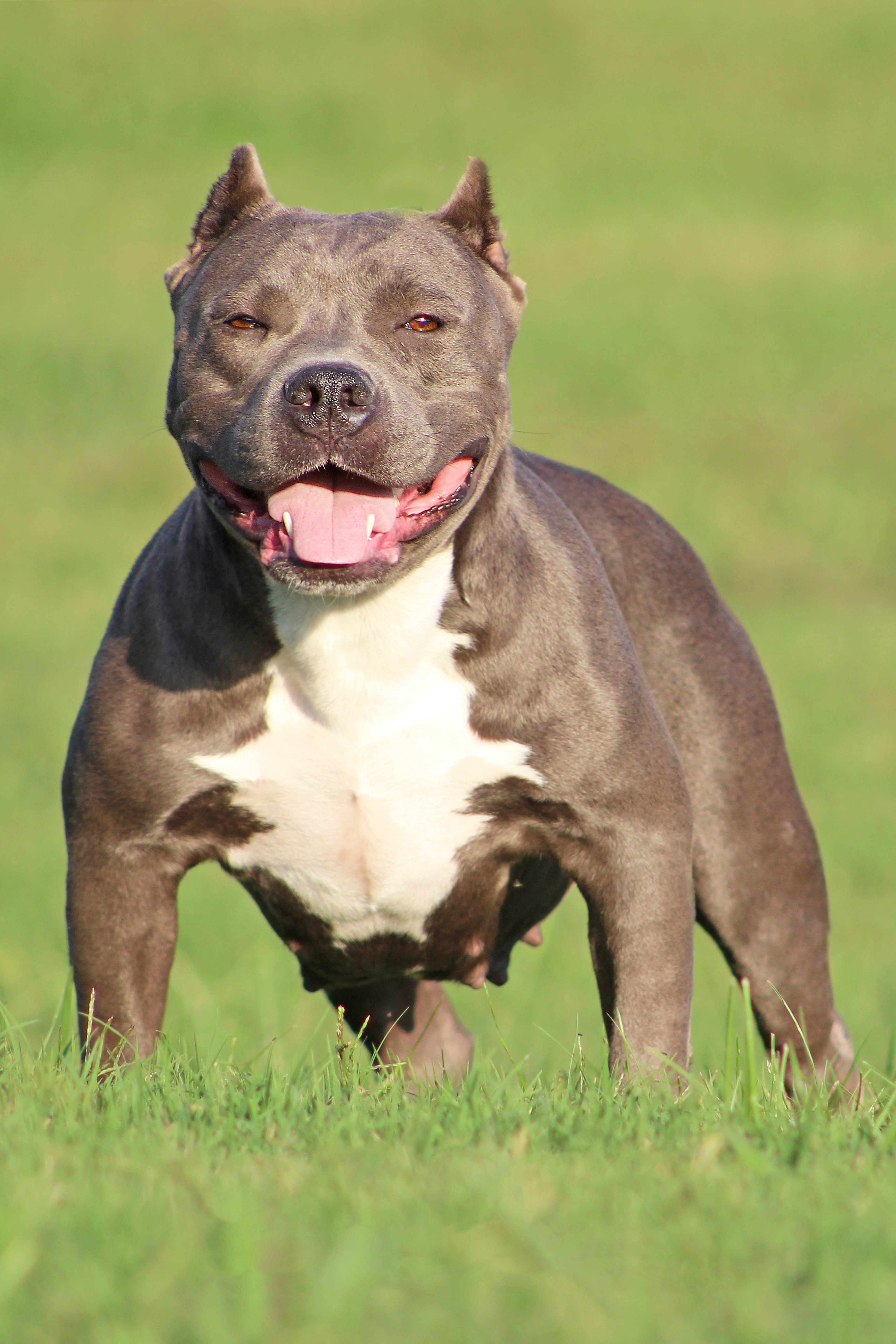 Cirock of Rock City Kennels Original caption: “ s.a.m. photography and design CIROCK ROCK CITY KENNELS ” — from watermark